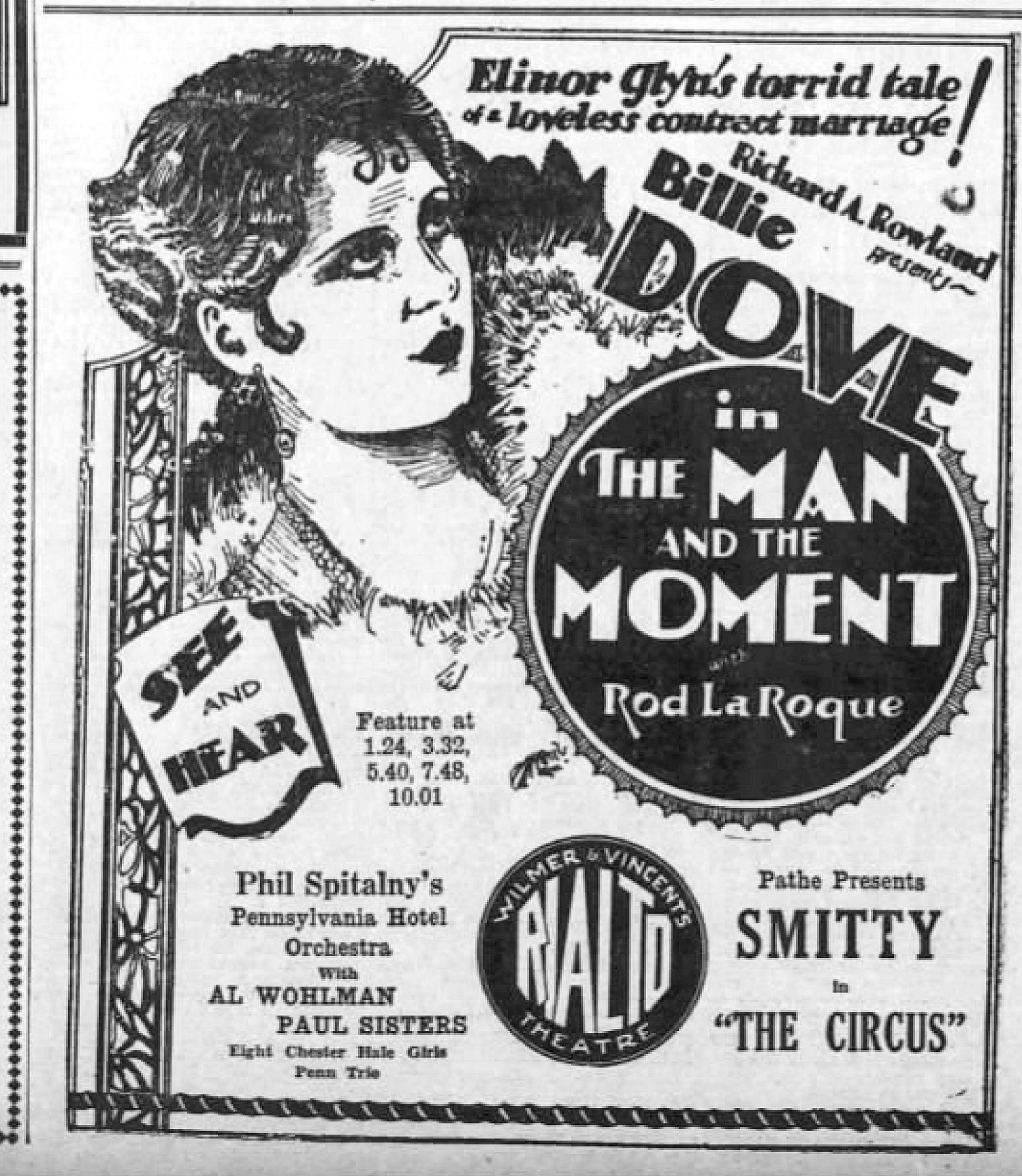 Rialto Theater Ad - 24 Jul MC - Allentown, PA for the American film The Man and the Moment (1929).